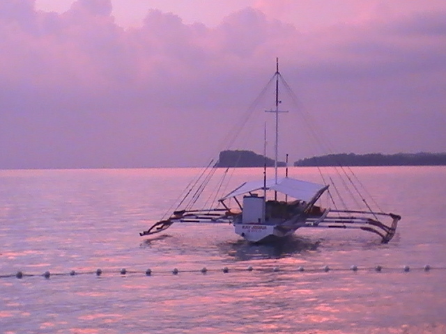 A pump boat at sunset. Guimaras, Philippines.